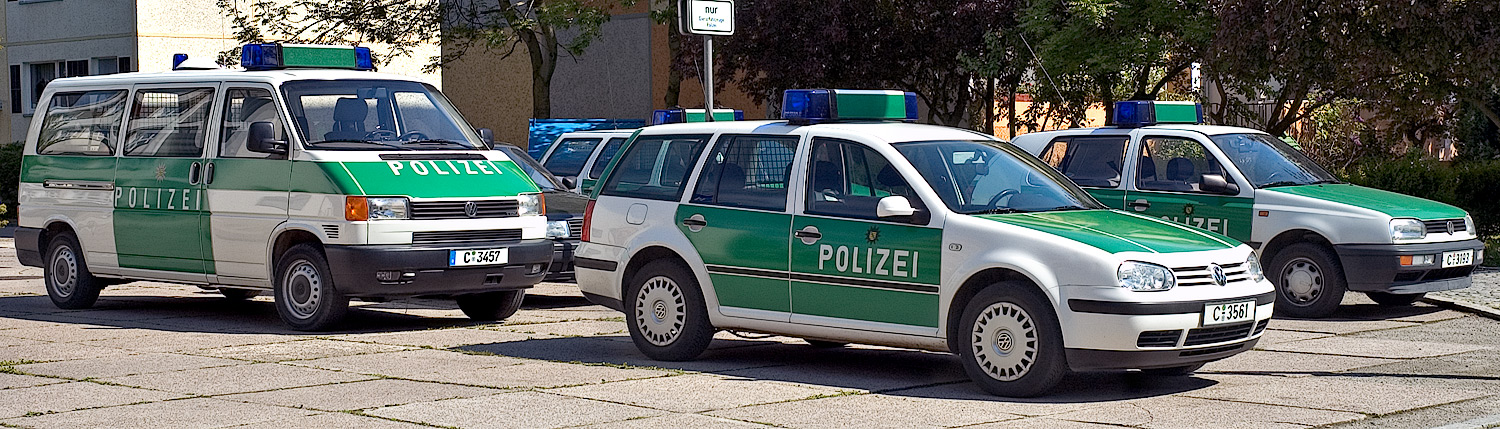 This image shows various German police cars. These are from left to right a Volkswagen Transporter, a VW Golf Variant (IV) and a VW Golf (III).